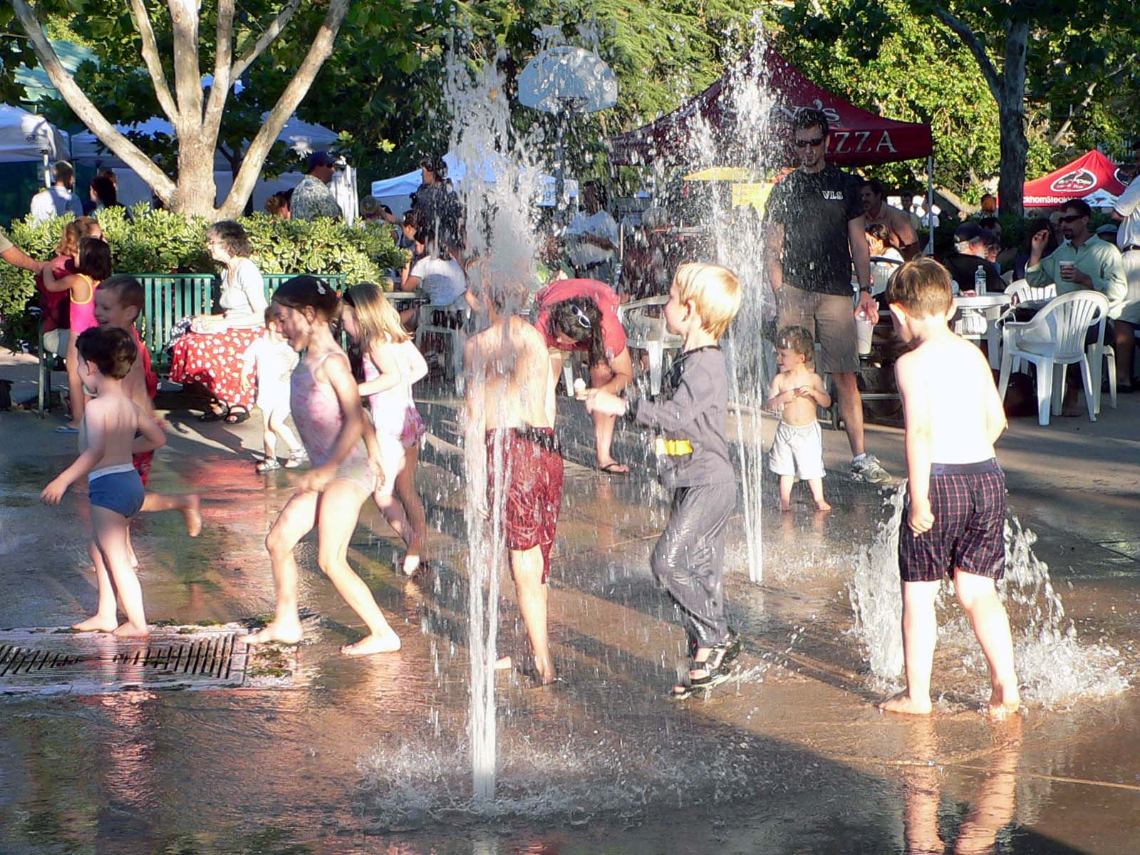 One of my favorite things to do at the farmers market is sit and watch the kids play in the fountain on a hot summer evening, Davis, California.Fountain Fun